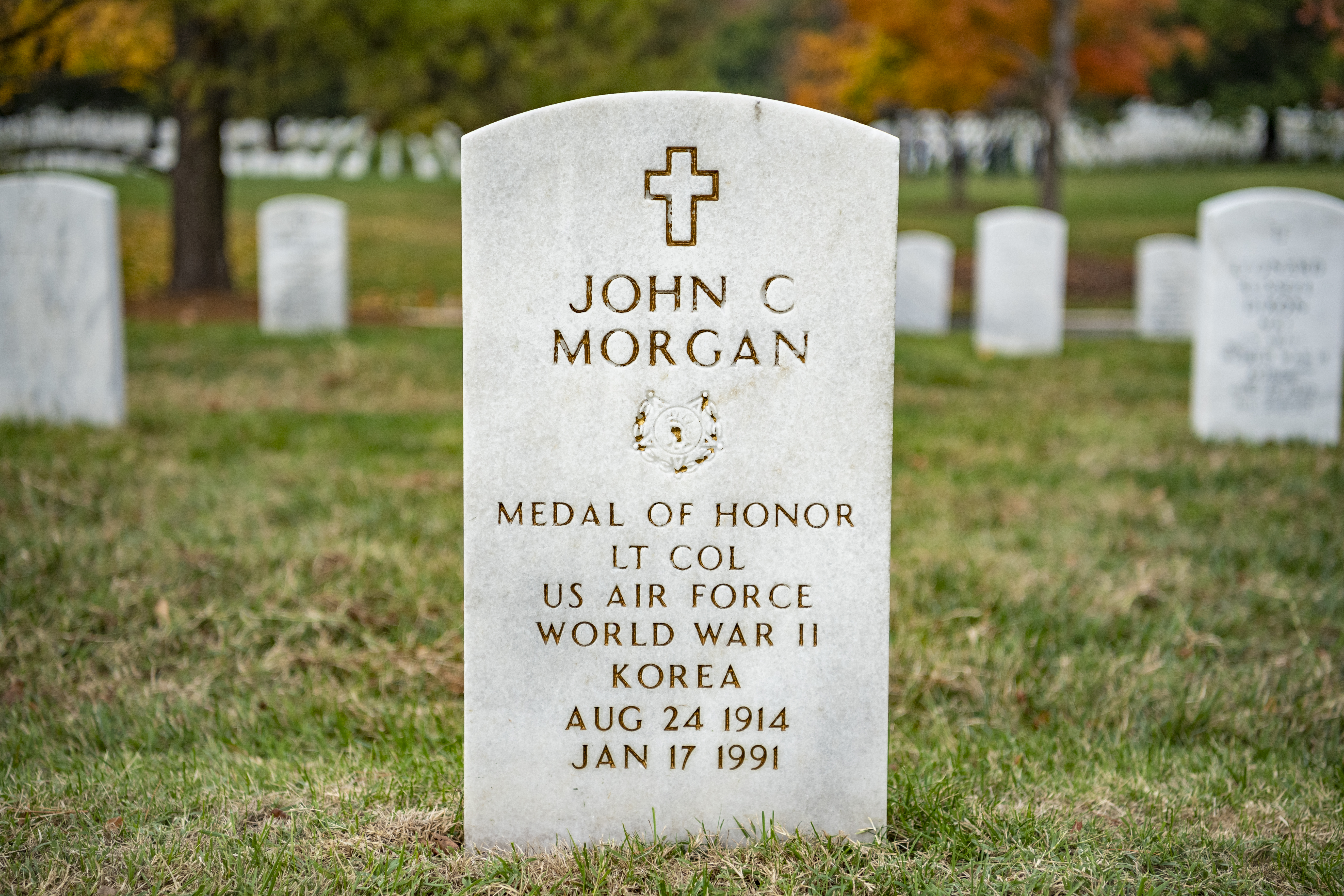 Headstone of U.S. Air Force Lt. Col. John Morgan in Section 59 of Arlington National Cemetery, Arlington, Virginia, Oct. 30, 2019. (U.S. Army photo by Elizabeth Fraser / Arlington National Cemetery / released)